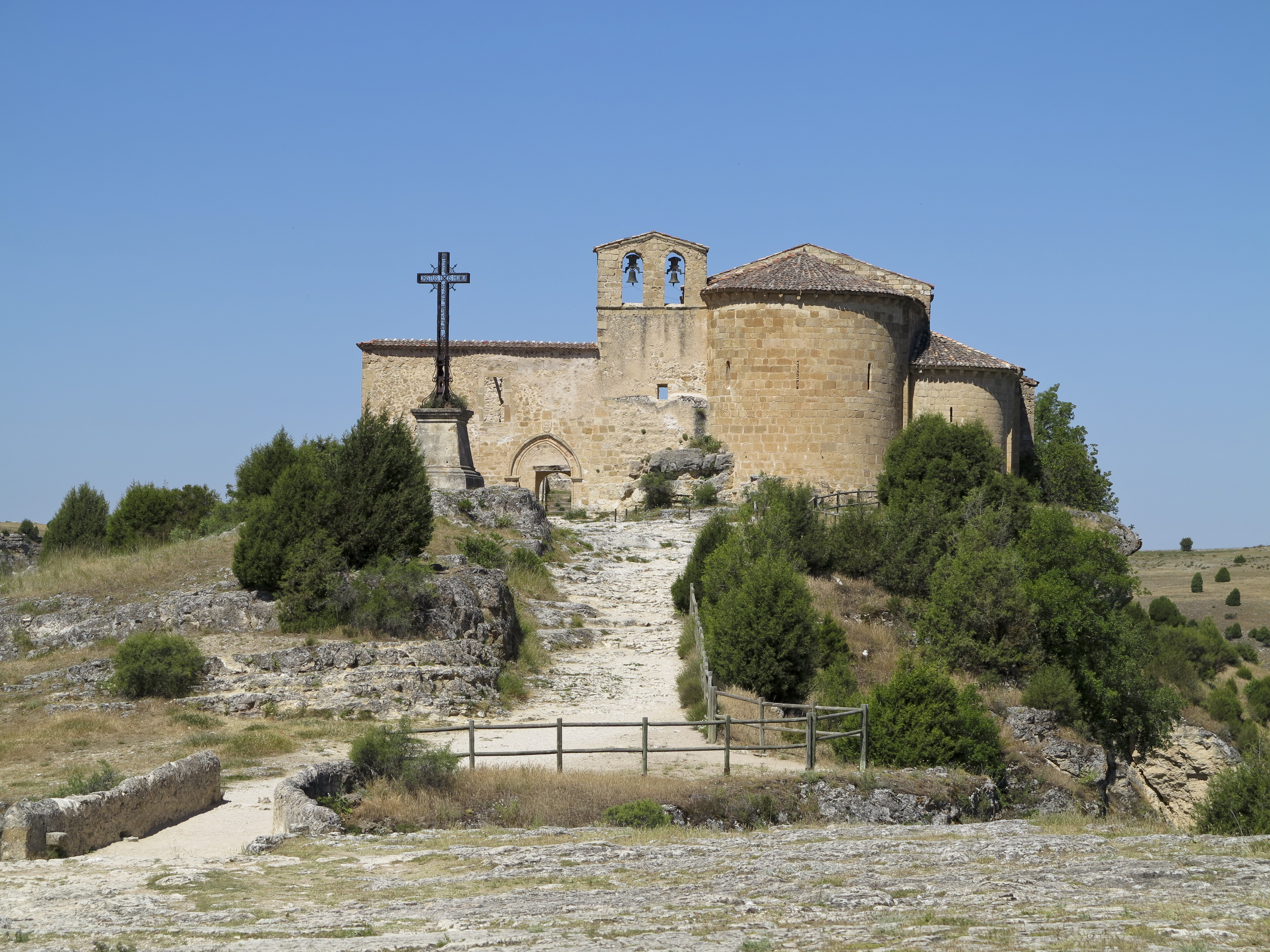 Parque Natural de las Hoces del Rio Duratón, 12 km west from Sepúlveda, in Segovia, Castilla y León, Spain. Iglesia y Monasterio de San Fruto.